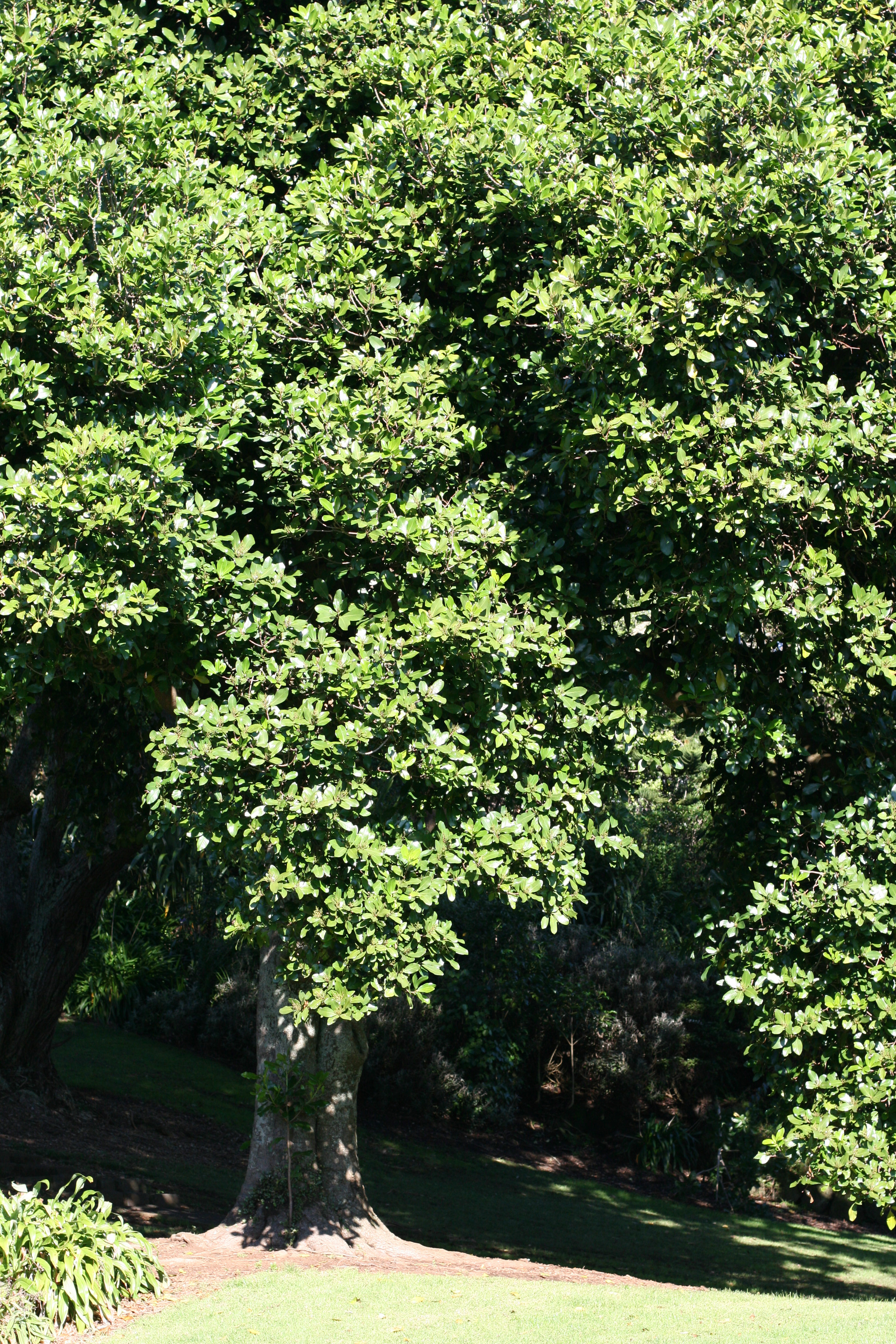 Karaka tree, Corynocarpus laevigatus, flowering tree, Auckland, New Zealand.